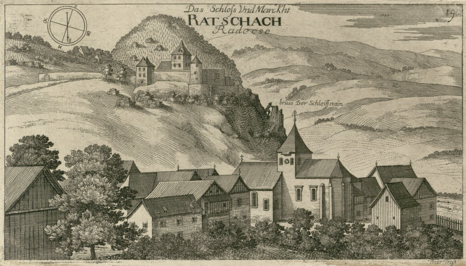 Radeče Castle